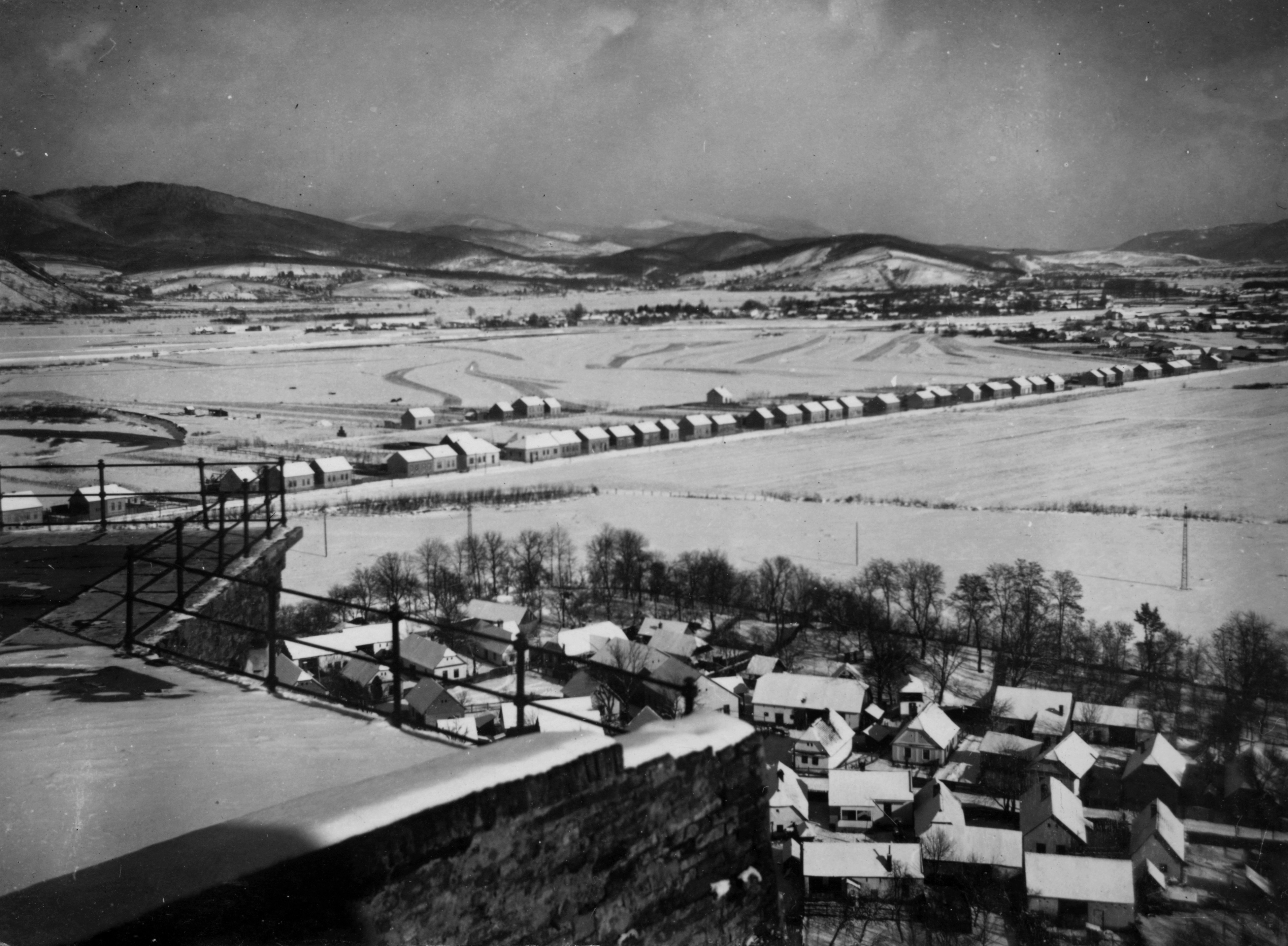 Zakarpattia before 1938 (zone Mukachevo, castle Palanok) Photos: Czechoslovak Armed Forces, M. Hubalek